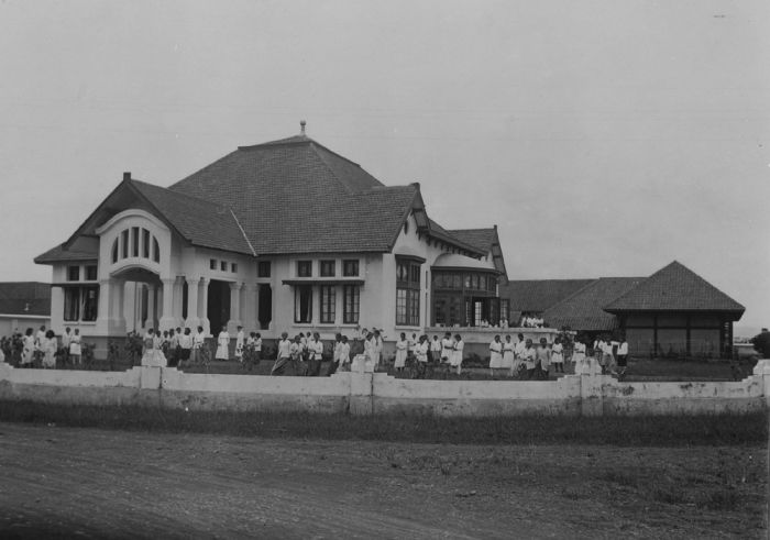 Pupils and teachers before the first education school for infant teachers in Bandung, Java.